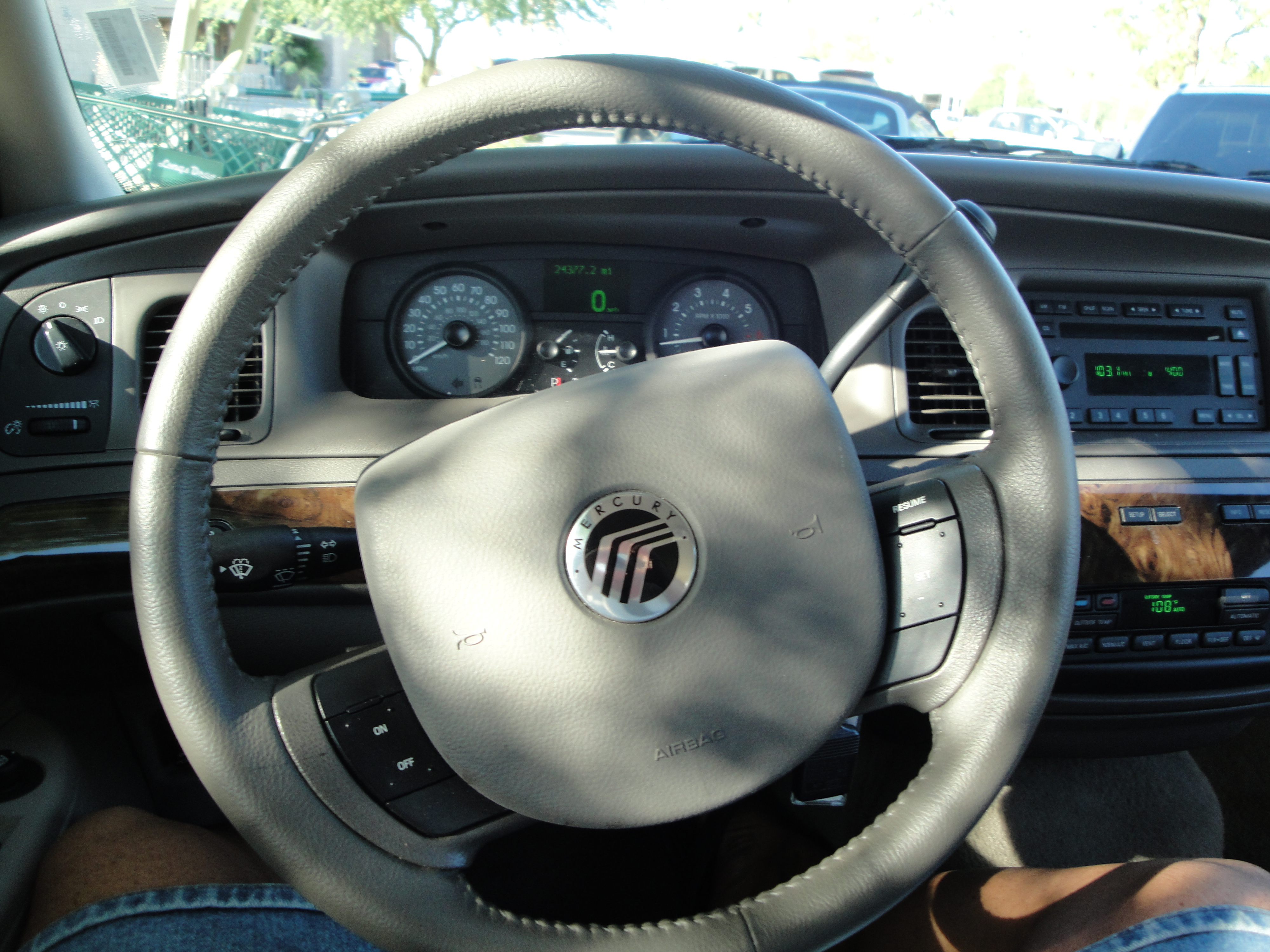 Ulitmate Edition